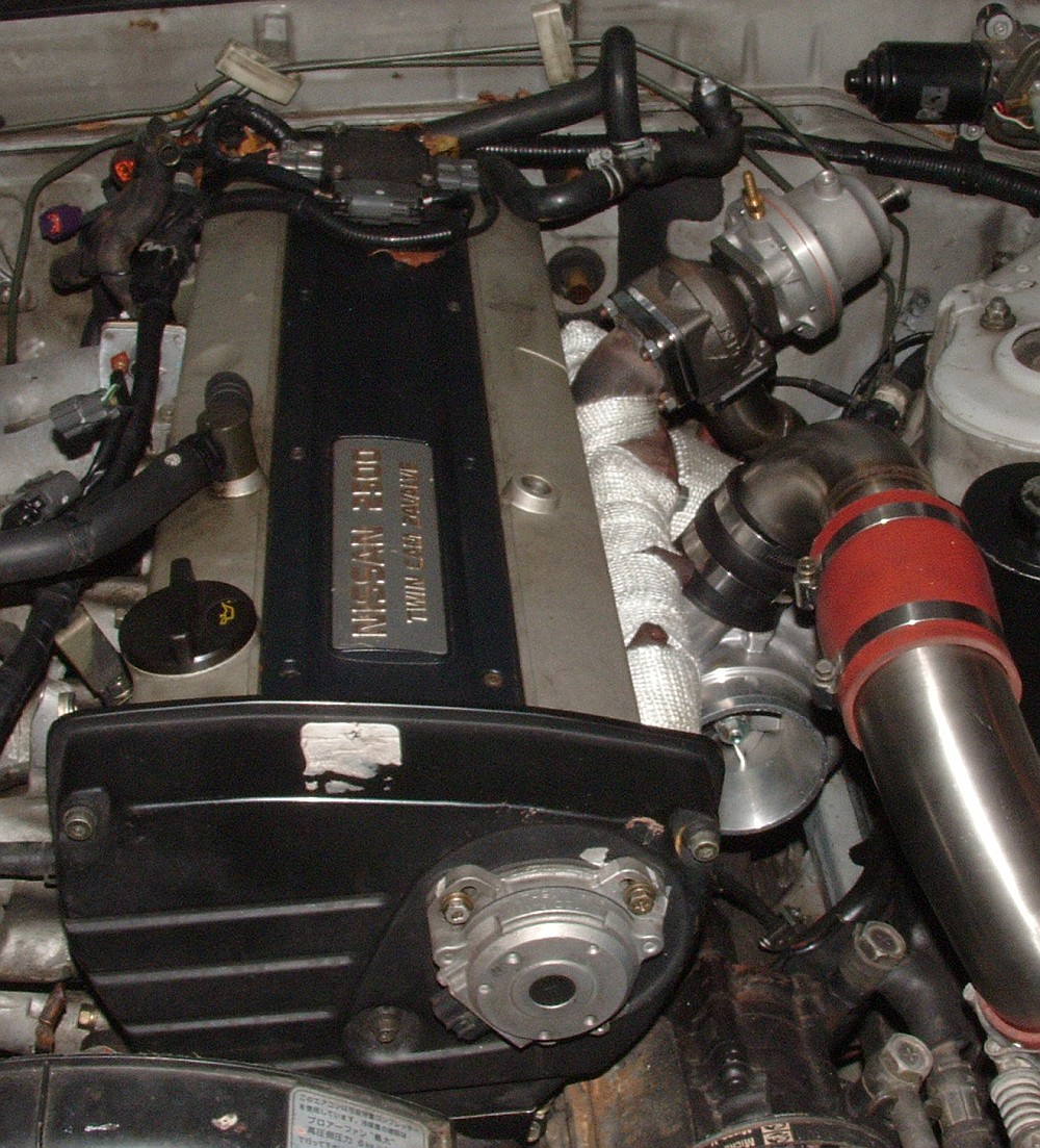 Nissan RB30DET engine made from R33 RB25DE head on R31 RB30E block